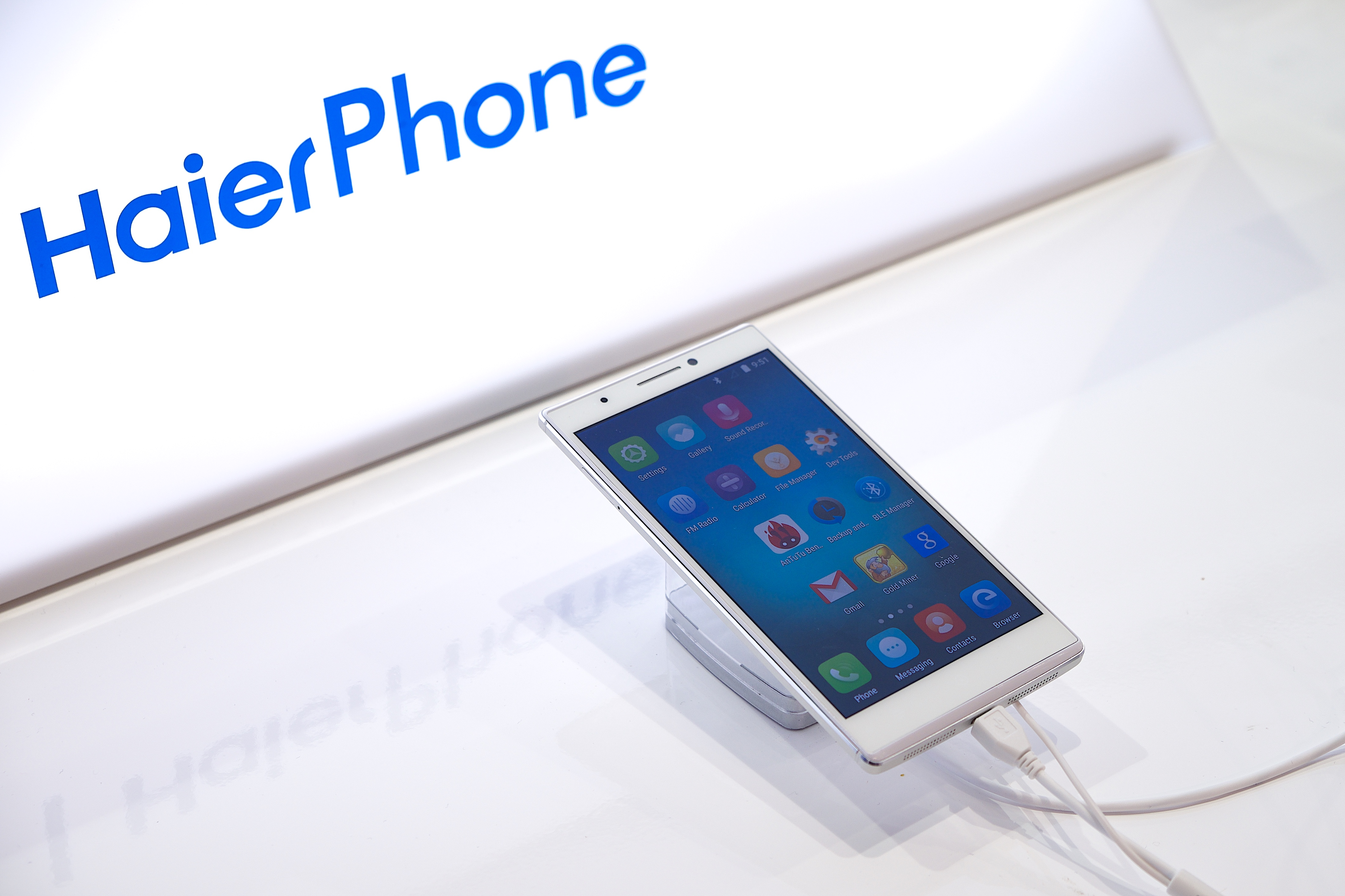 HaierPhone at Mobile World Congress 2015